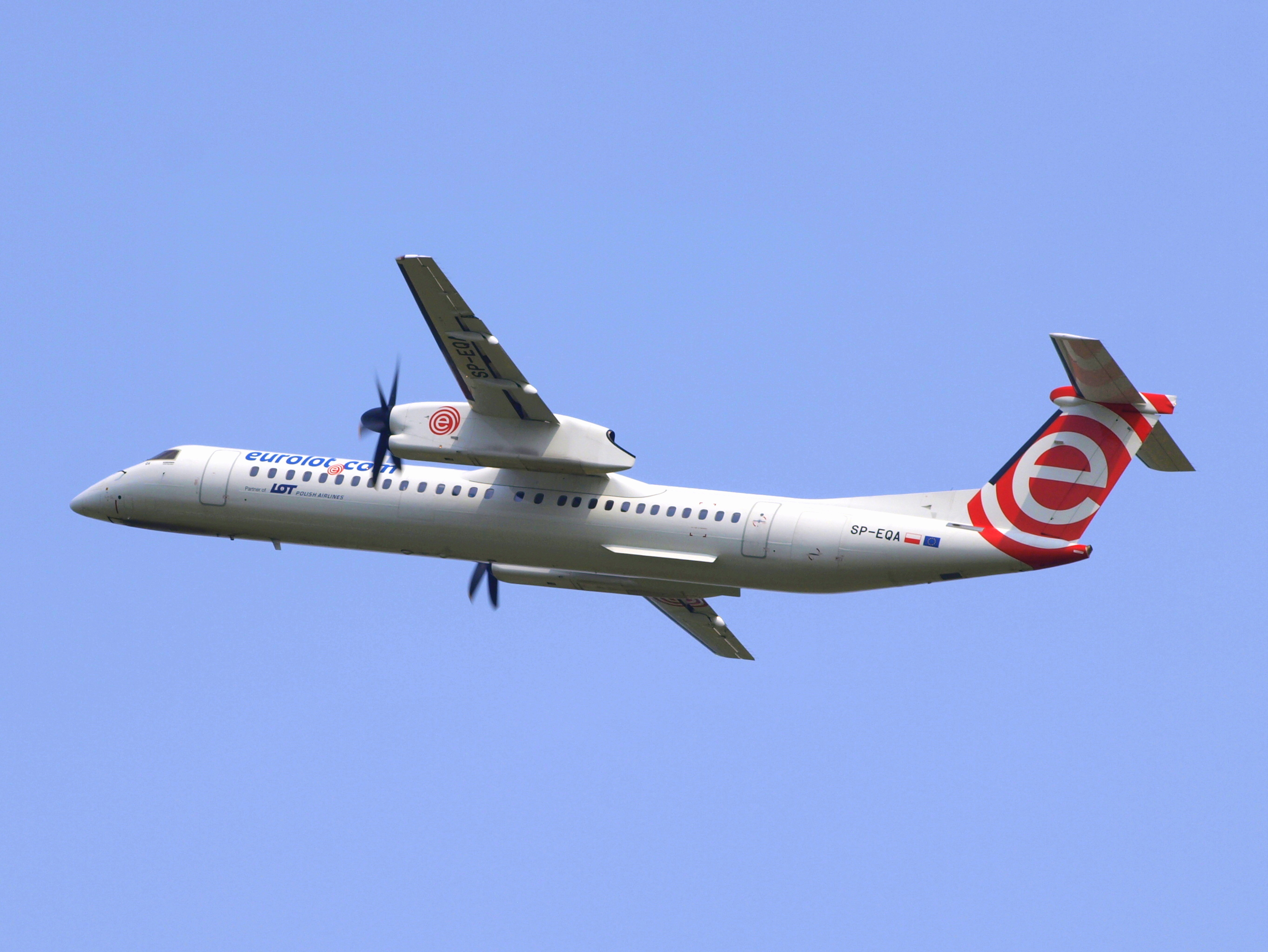 Photographed at Schiphol, Amsterdam airport, (IATA: AMS, ICAO: EHAM), the Netherlands.